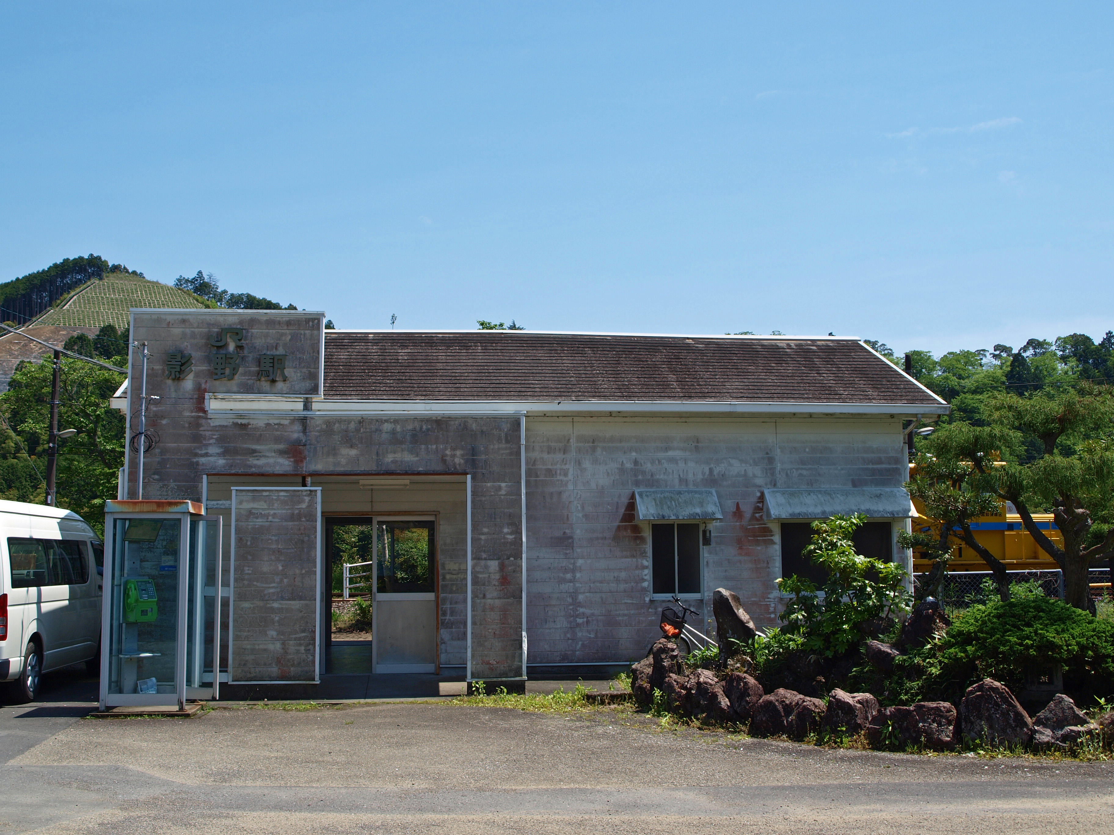 Kageno station, Dosan-line, JR Shikoku, Japan